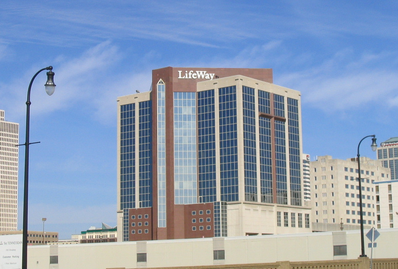 The LifeWay Christian Resources headquarters in Nashville. (Nashville, USA)